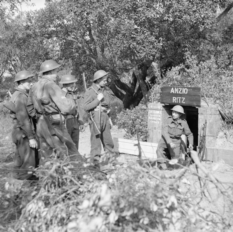 The British Army in Italy 1944 Entertaining the troops: Cinema was a popular form of recreation for men and women in uniform. Potential audience members (Corporal F Spink, Driver A J Harvey, Sapper E Thomas, Sapper J Dymott, Driver J Waite and Private H Gibson) talk with Corporal M A Moyse of the Army Kinematograph Service (AKS) at the entrance to the ‘Anzio Ritz’, a small “dug-out cinema” created for Fifth Army troops on the heavily-shelled Anzio Bridgehead in Italy, March 1944.